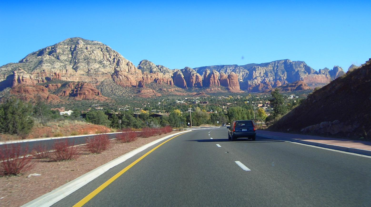 SR 89A in Sedona, Arizona; image cropped from original to remove portions of a car in the photo